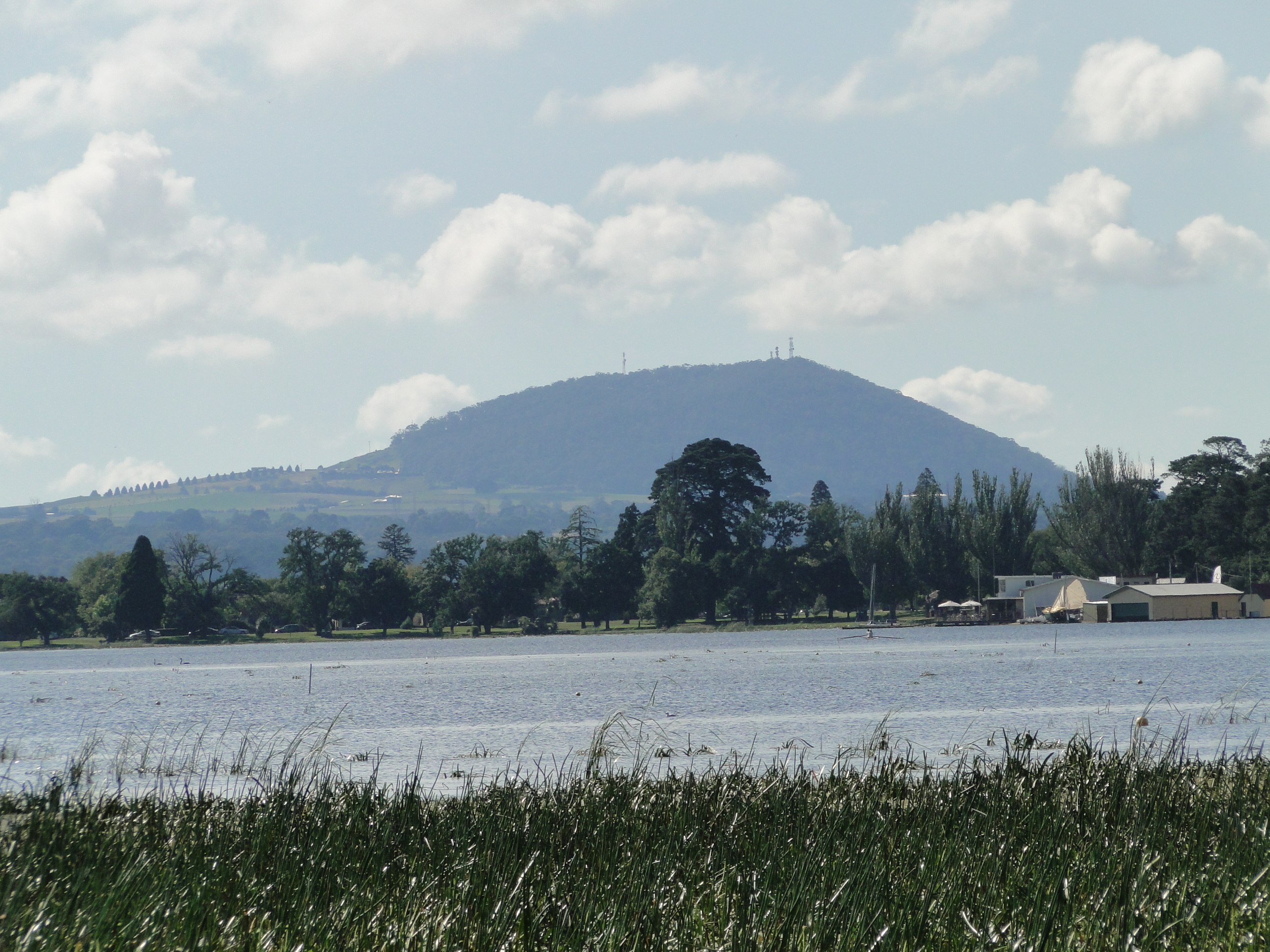 Mount Warrenheip, an inactive volcano, looking east from Lake Wendouree, Ballarat, Victoria, Australia